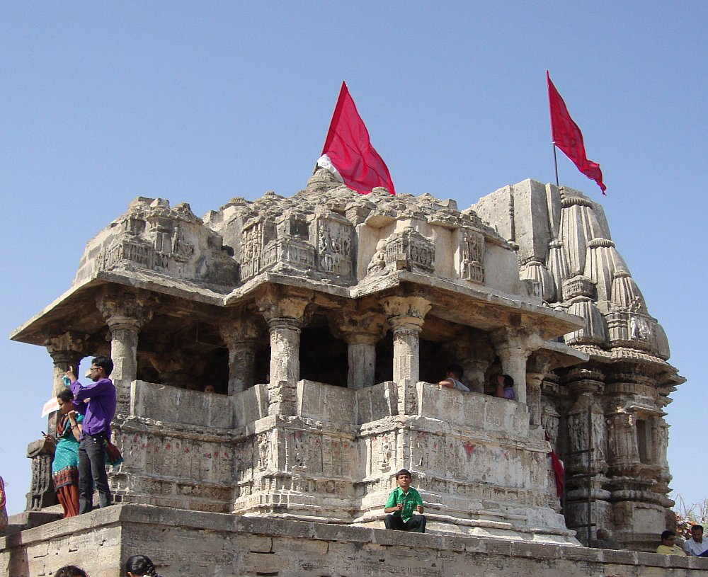 Harshad Temple on Koyala hill, at Saurashtra, Gujarat, India.